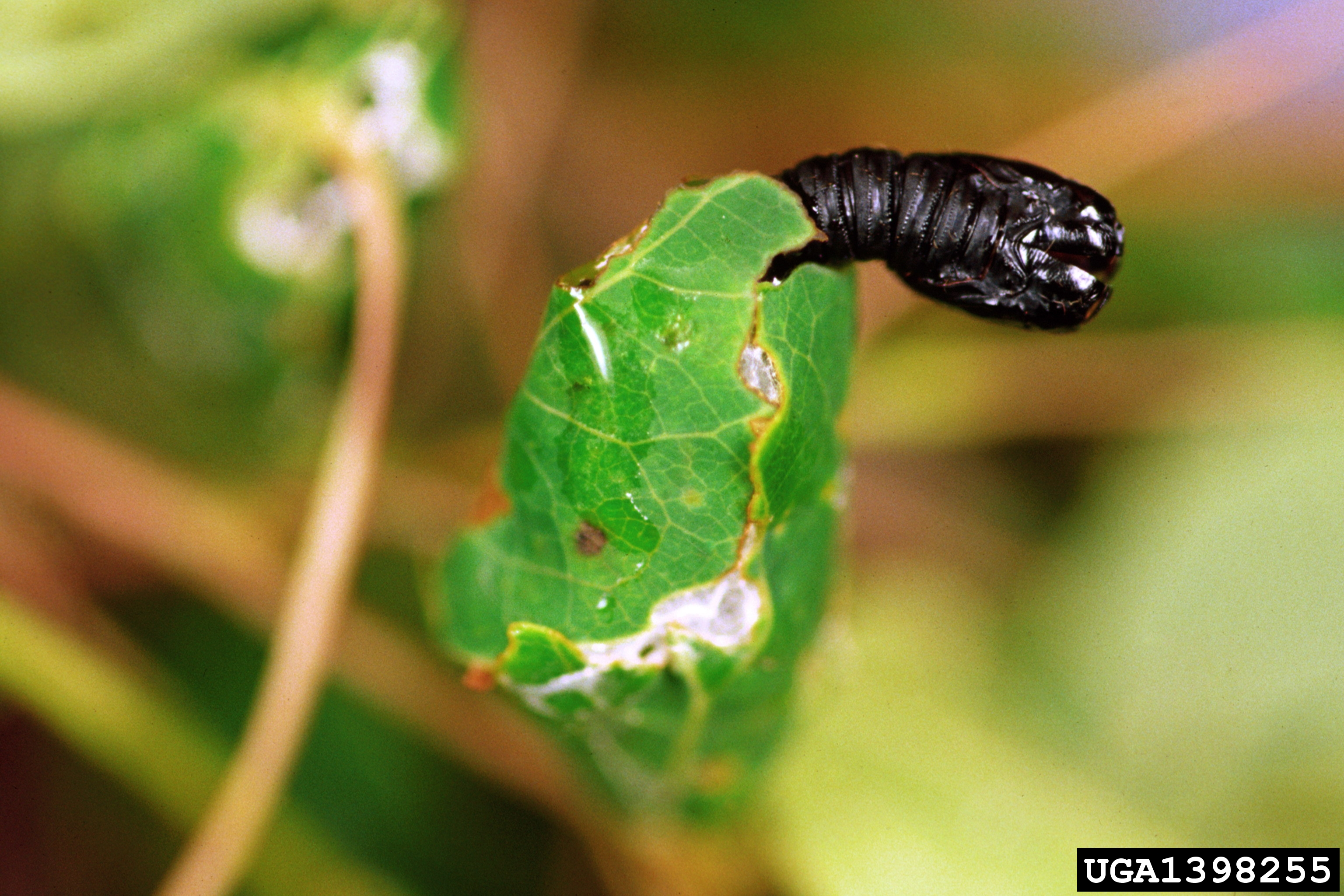 Choristoneura conflictana puppa